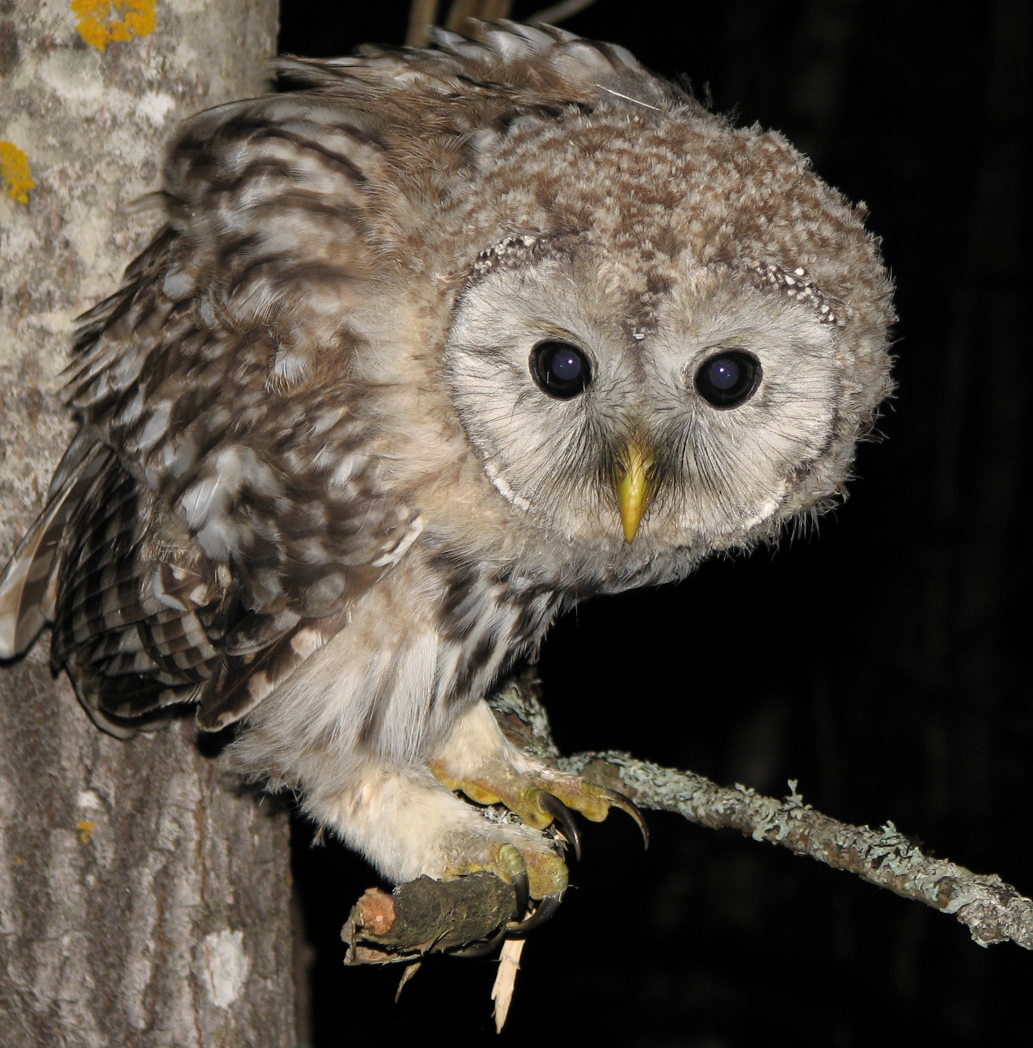 Ural owl in Kerzhenets Nature Reserve, Nizhny Novgorod Oblast, Russia